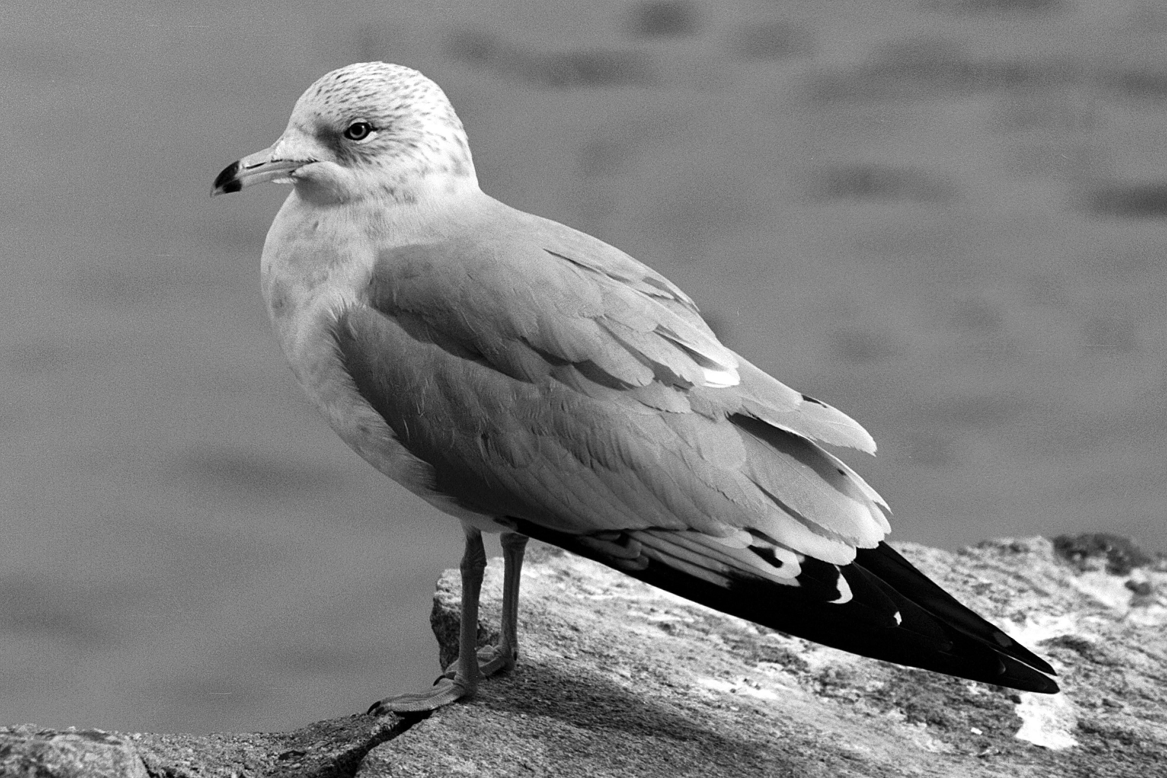 A Ring-billed Gull, Photographed by Alan Light Bruce Park, Greenwich, CT, USA with Canon EOS 630 on Kodak BW400CN Film using Canon 100-400mm 5.6L IS Lens